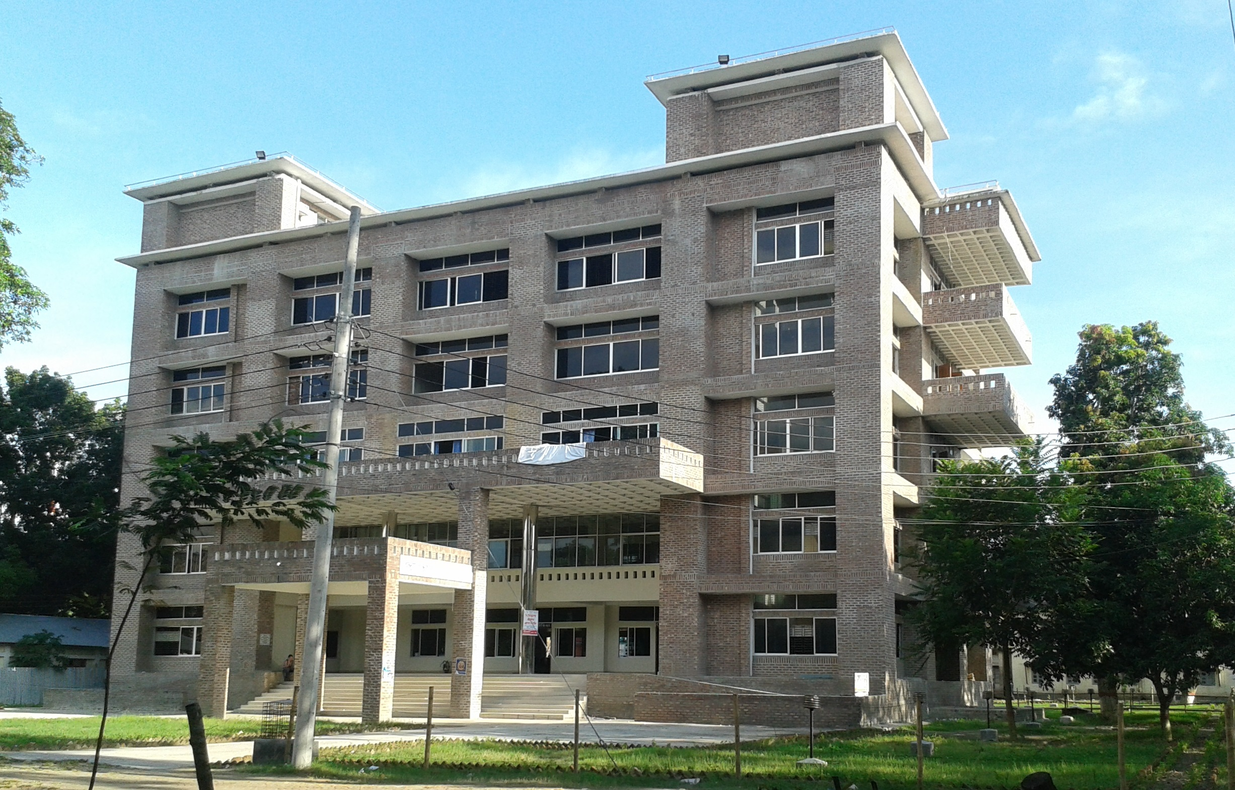 Mawlana Bhashani Science and Technology University Library and Cafeteria